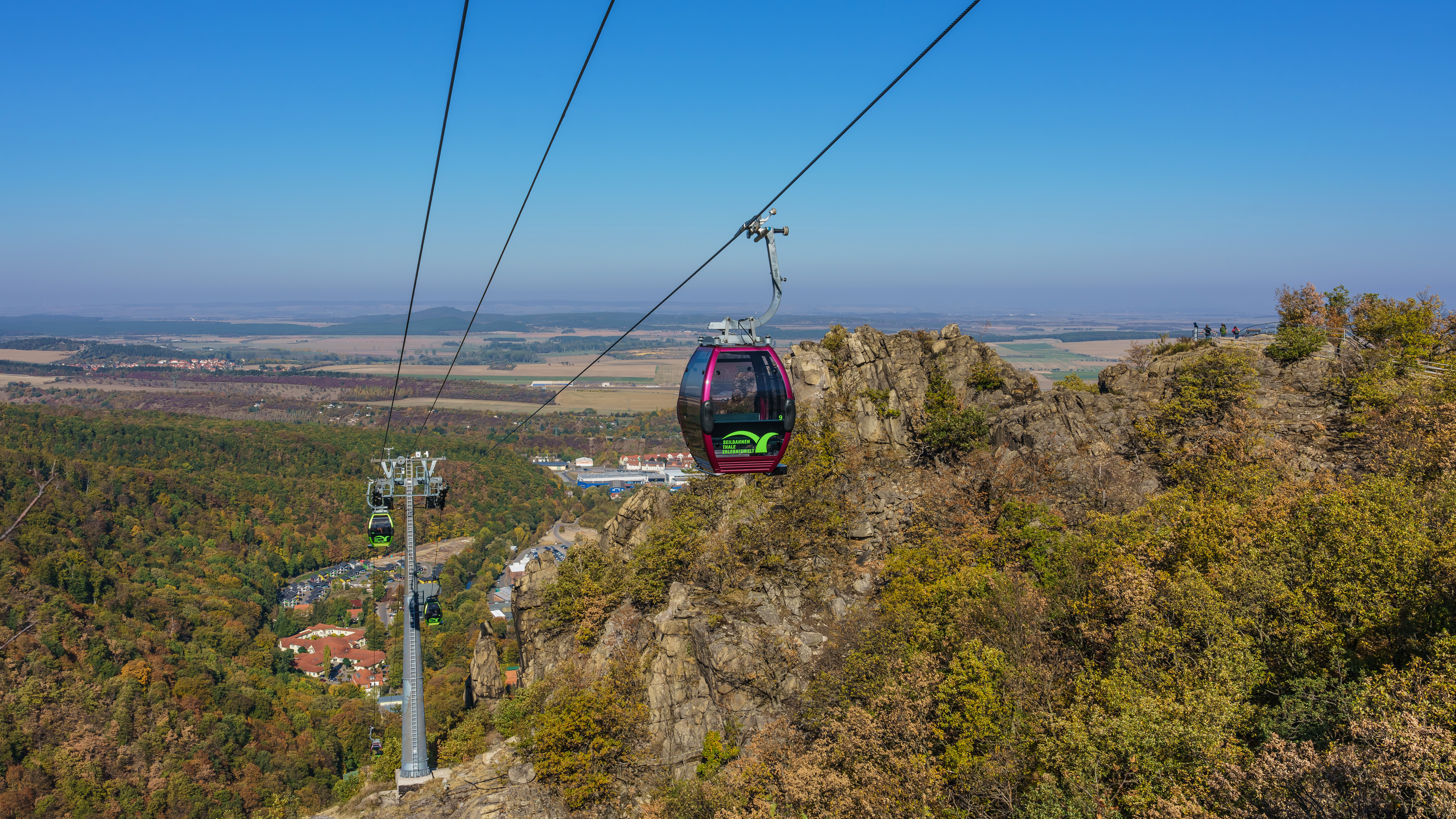 Gondola lift to Witches' Point in Thale, Germany